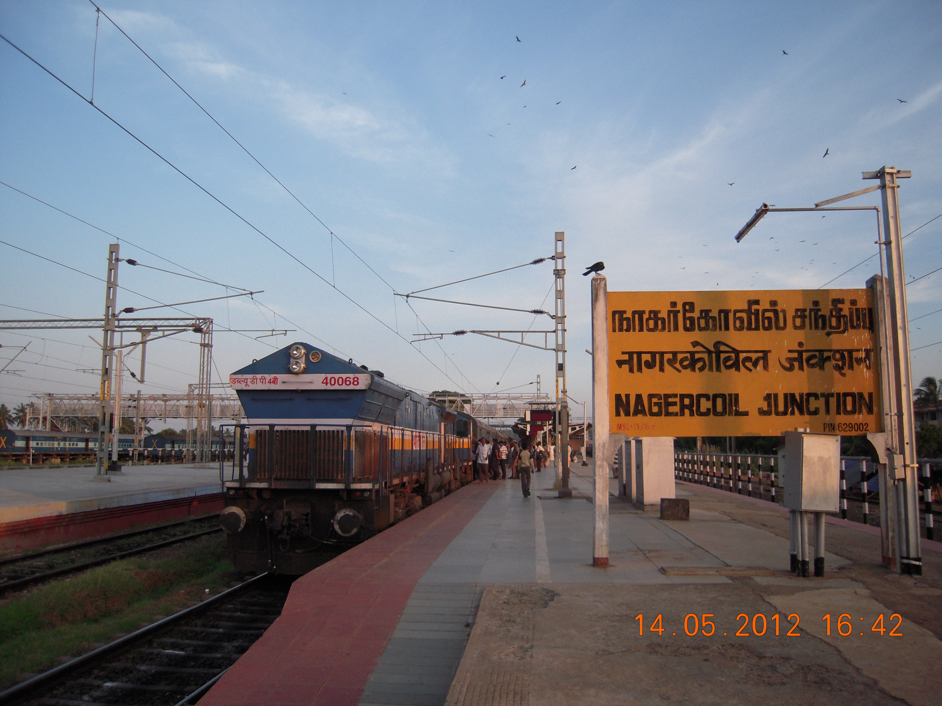 Kanyakumari Express in Platform one at Nagercoil Railway Station